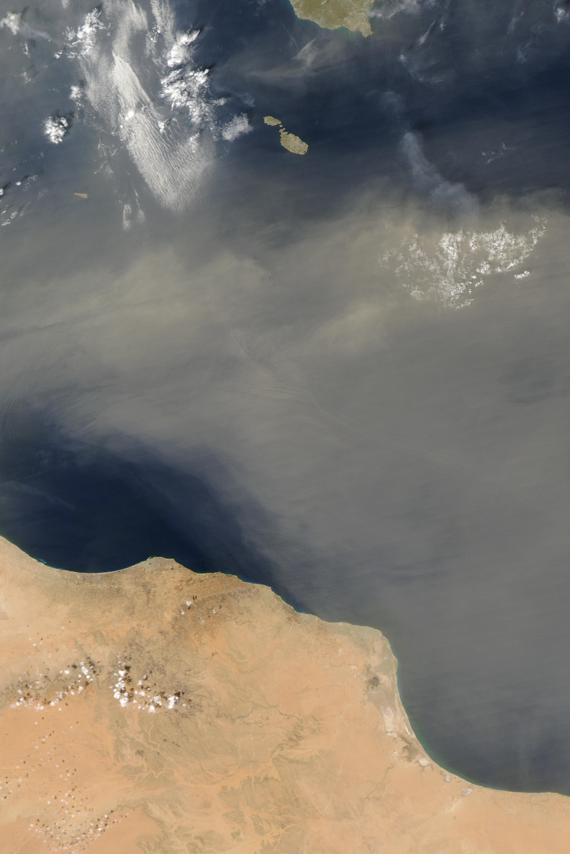 Satellite image of Libya and Malta